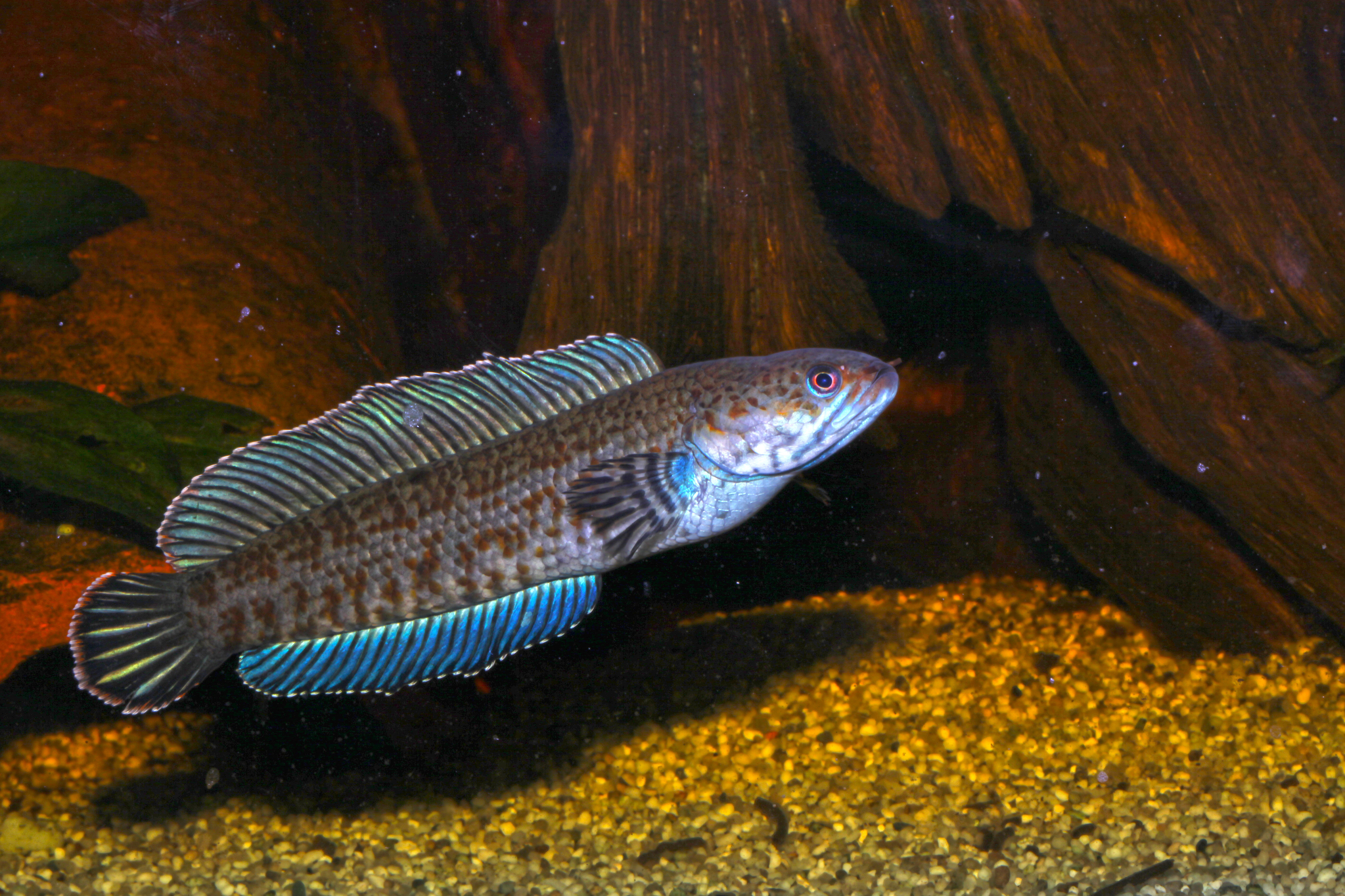 The dwarf snakehead from West Bengal